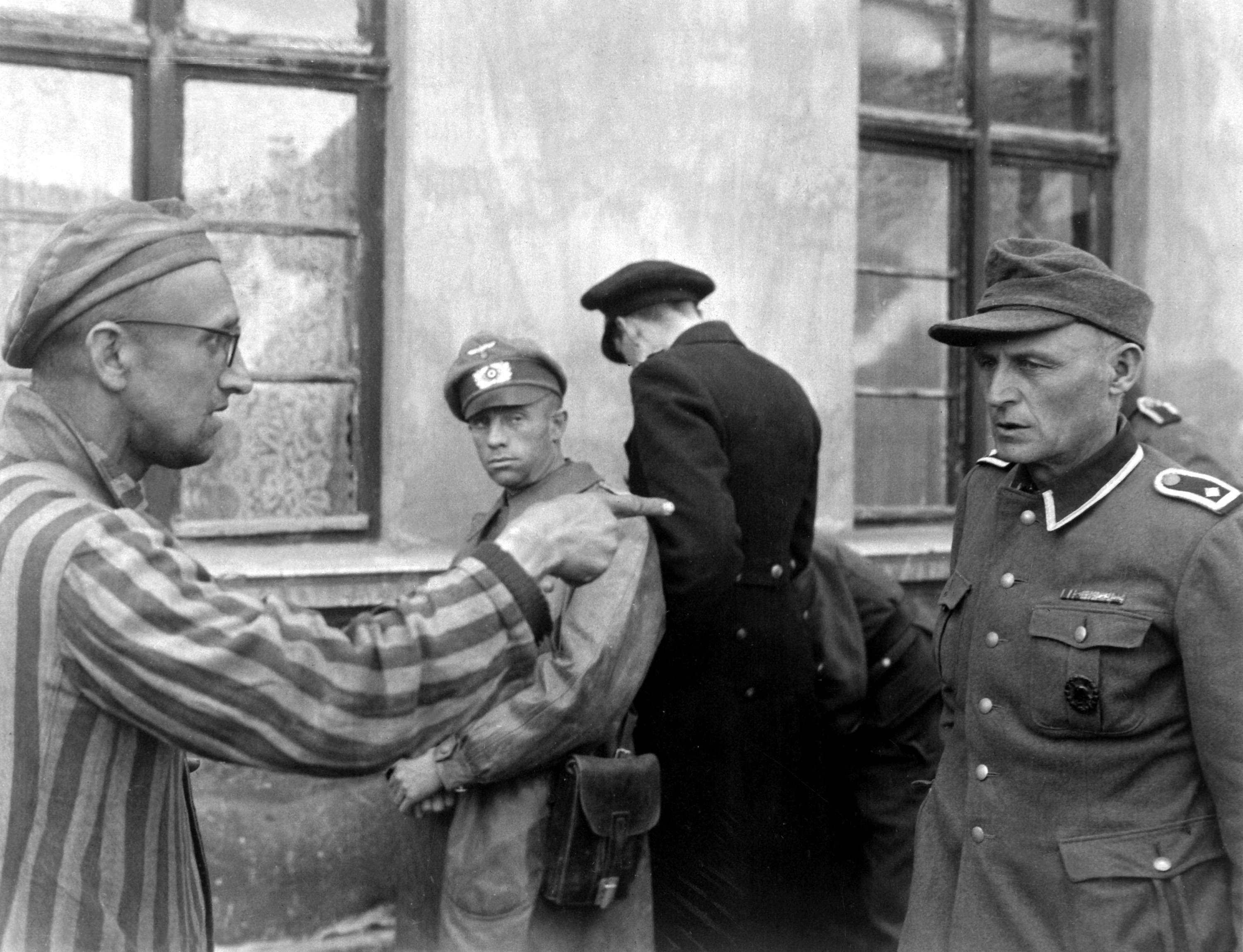 A Soviet slave laborer among prisoners liberated by 3rd Armored Division in Buchenwald points out a former Nazi guard who brutally beat prisoners on April 14, 1945, at the Buchenwald concentration camp in Thuringia, Germany.